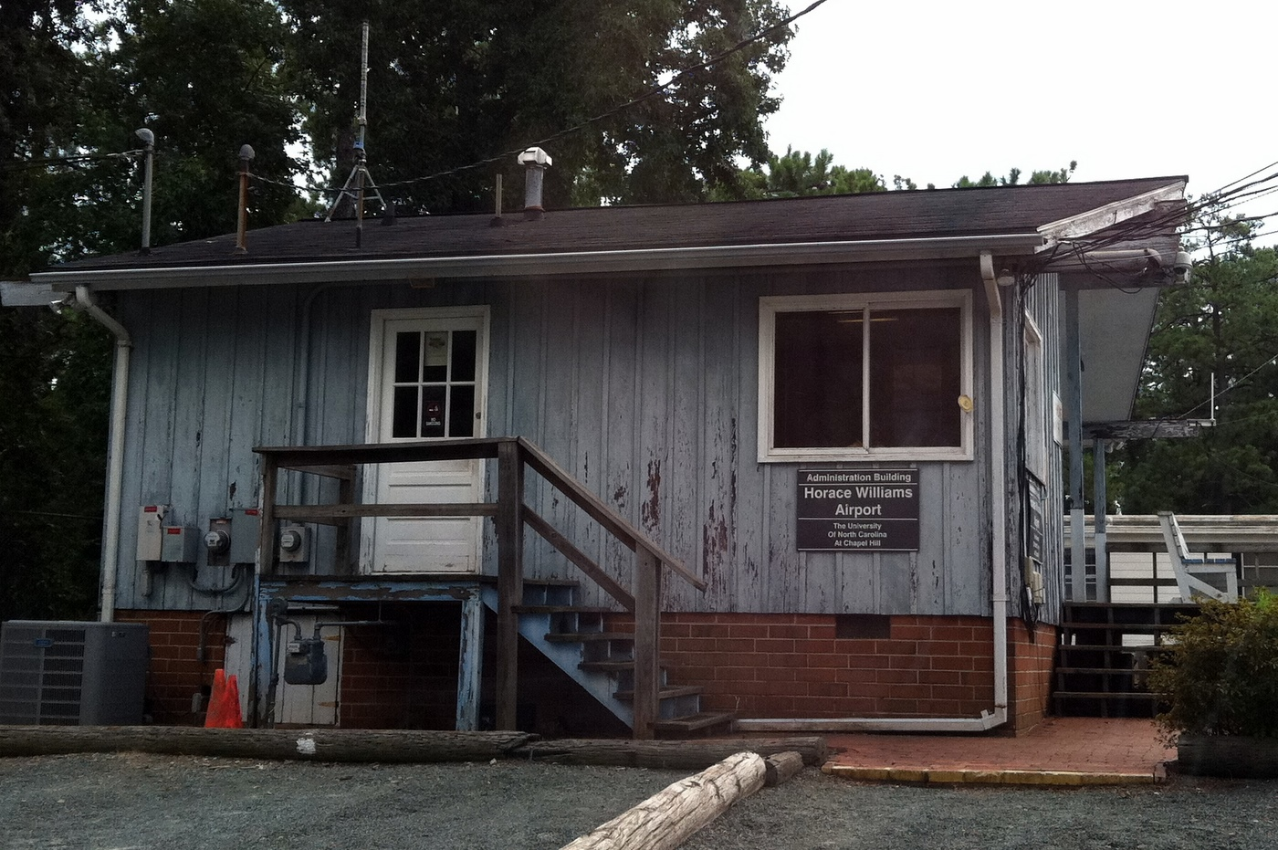 williams airport admin building